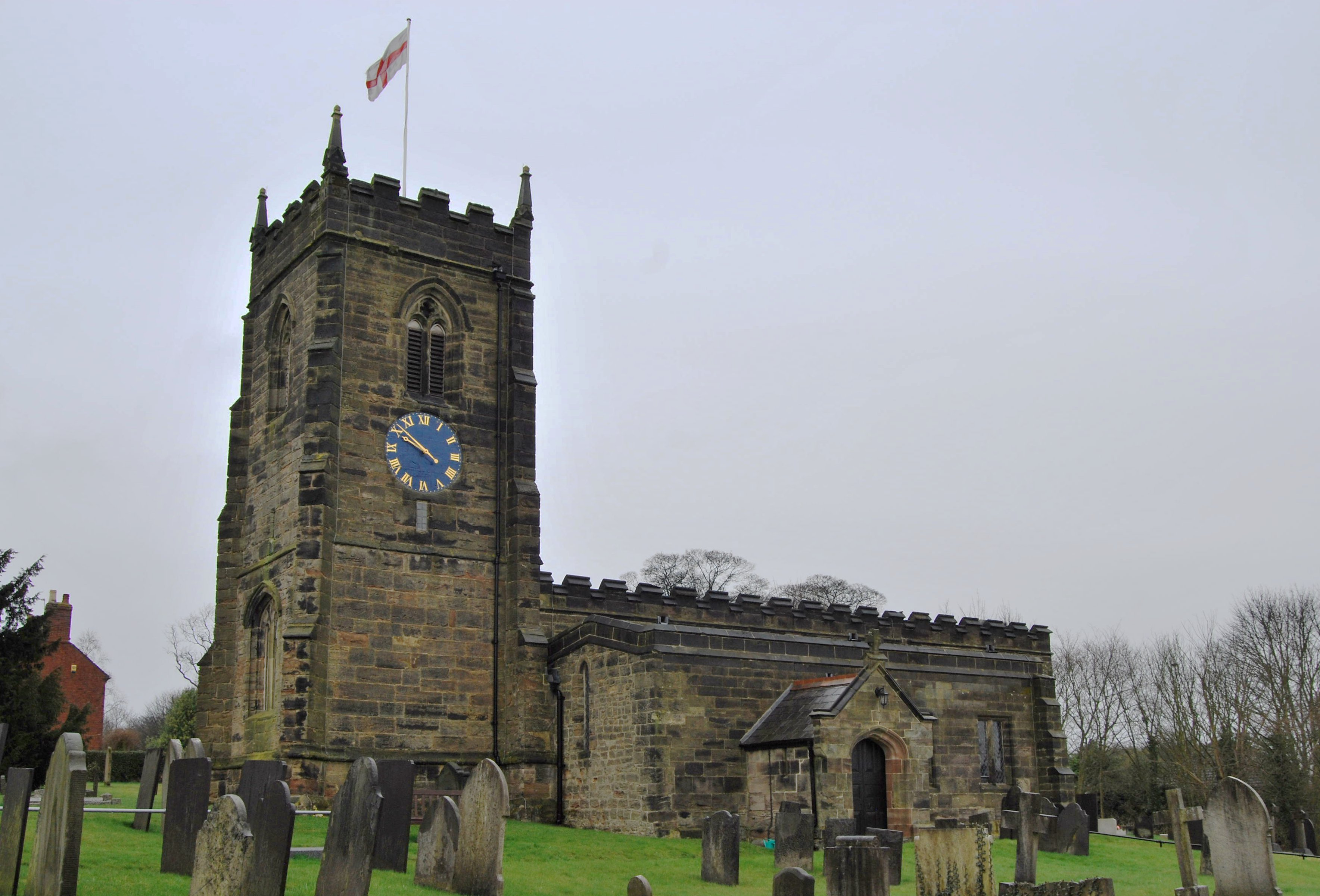 St Jame's Church Smisby Derbyshire